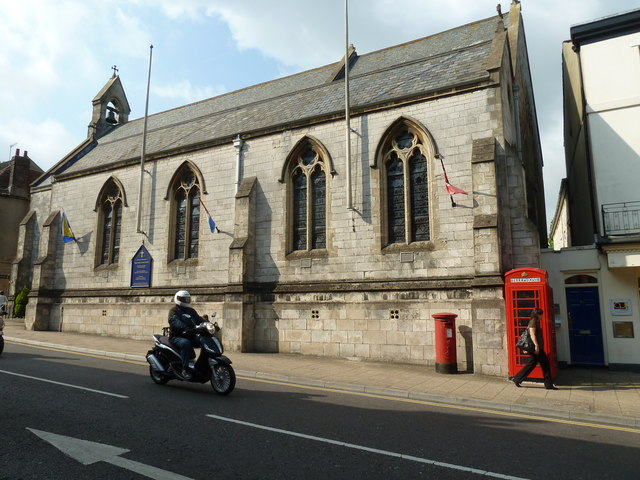 Holy Trinity Church, Dorchester, Dorset